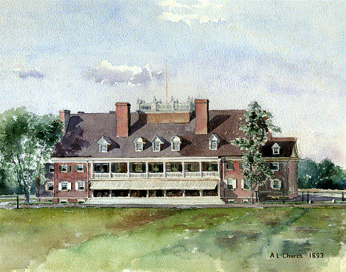 The Germantown Cricket Club in 1893.